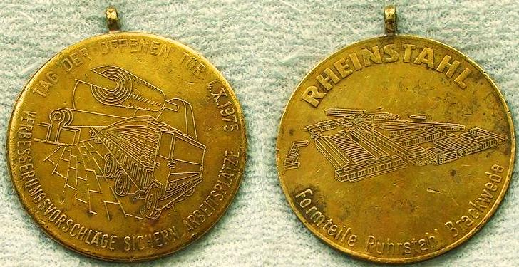 1975 yılına ait Rheınstahl Medaillen